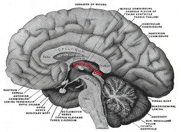 Gray's Anatomy Stria Medullaris